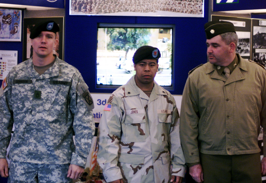 SFC Dan Dennison, SPC Ronald Jones and MAJ Steve Thrasher line up to show the U.S. Army's new Army Combat Uniform, the outgoing Desert Camouflage Uniform and the uniform worn by U.S. Army soldiers in World War II. The U.S. Army soldiers in the photograph were working in displays at the Public Service Recognition Week event on the National Mall in Washington, D.C. Photo credit: Eric Cramer May 4, 2005 source